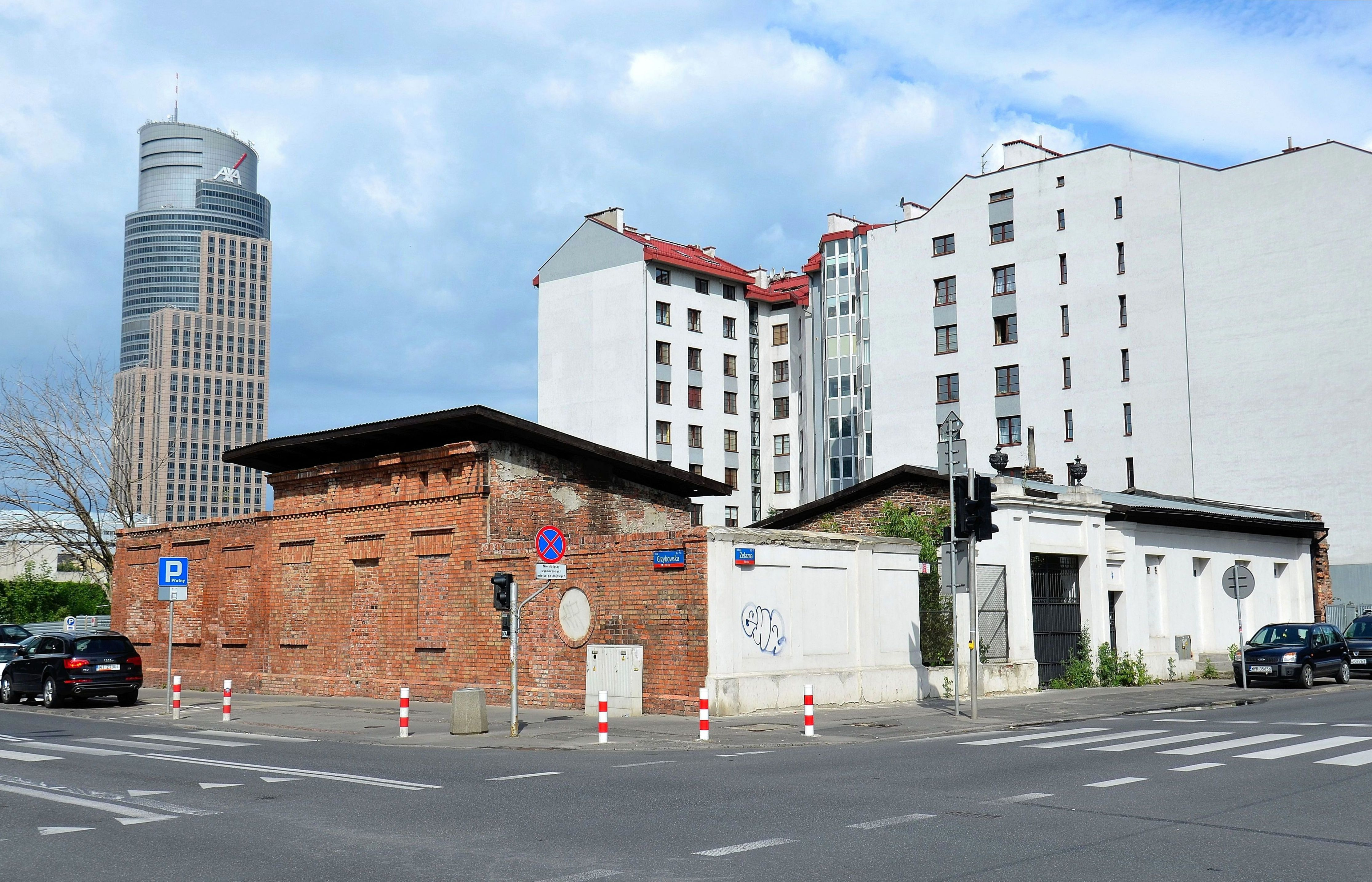 Former Duschik i Szolce factory at 63 Żelazna Street in Warsaw